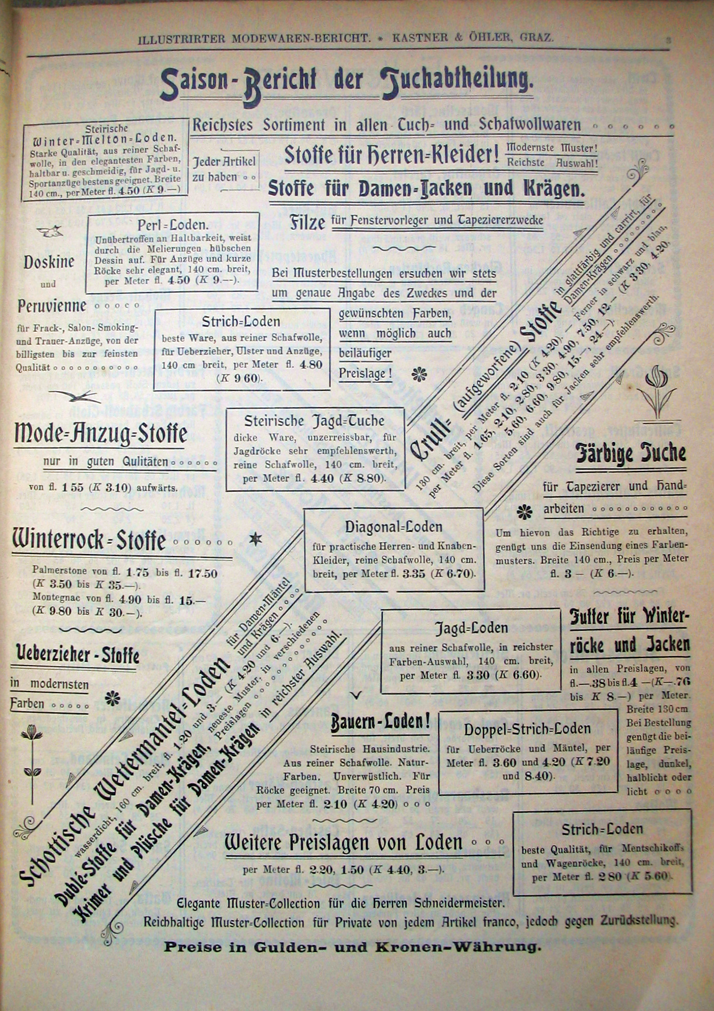 Textilwarenkatalog